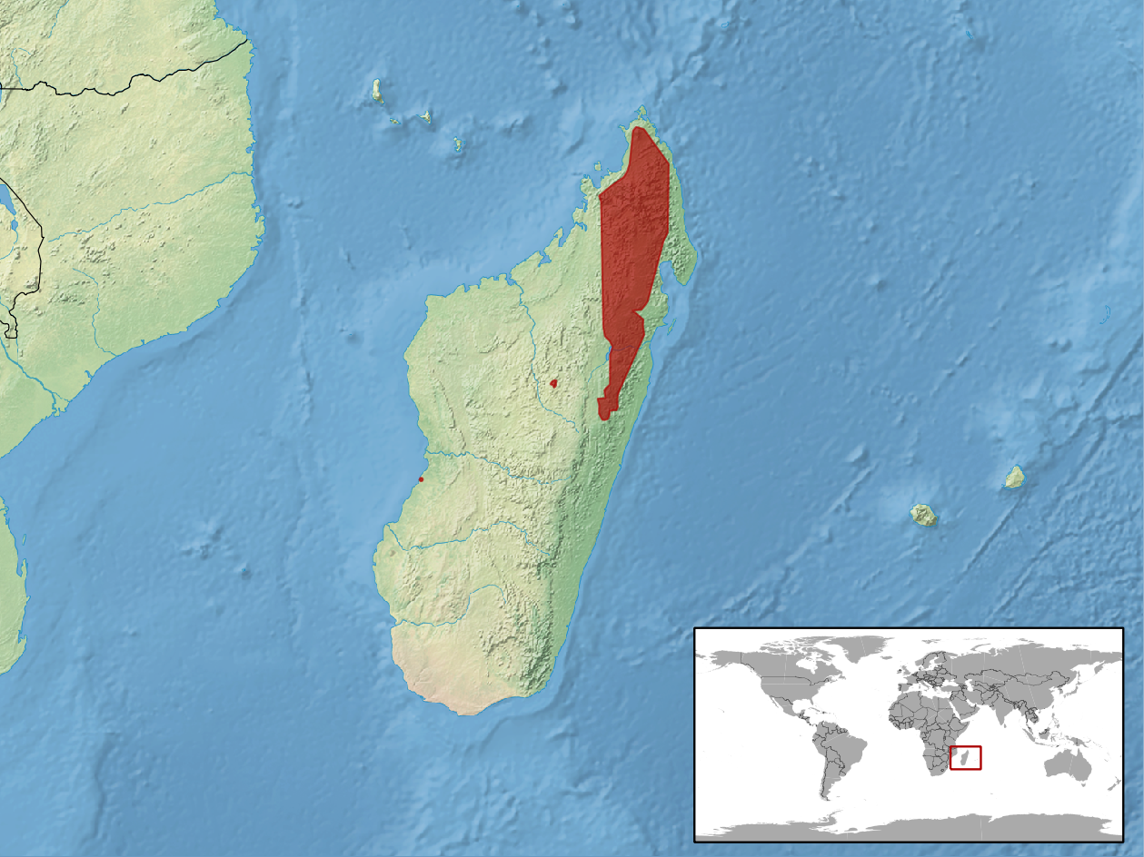 geographic distribution of Madascincus mouroundavae